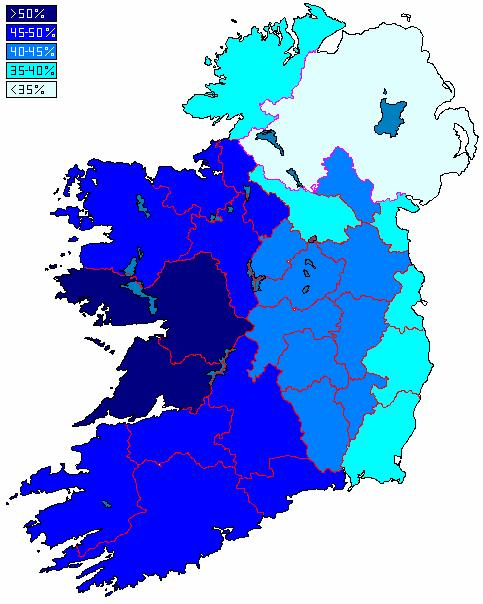 Language map of Ireland